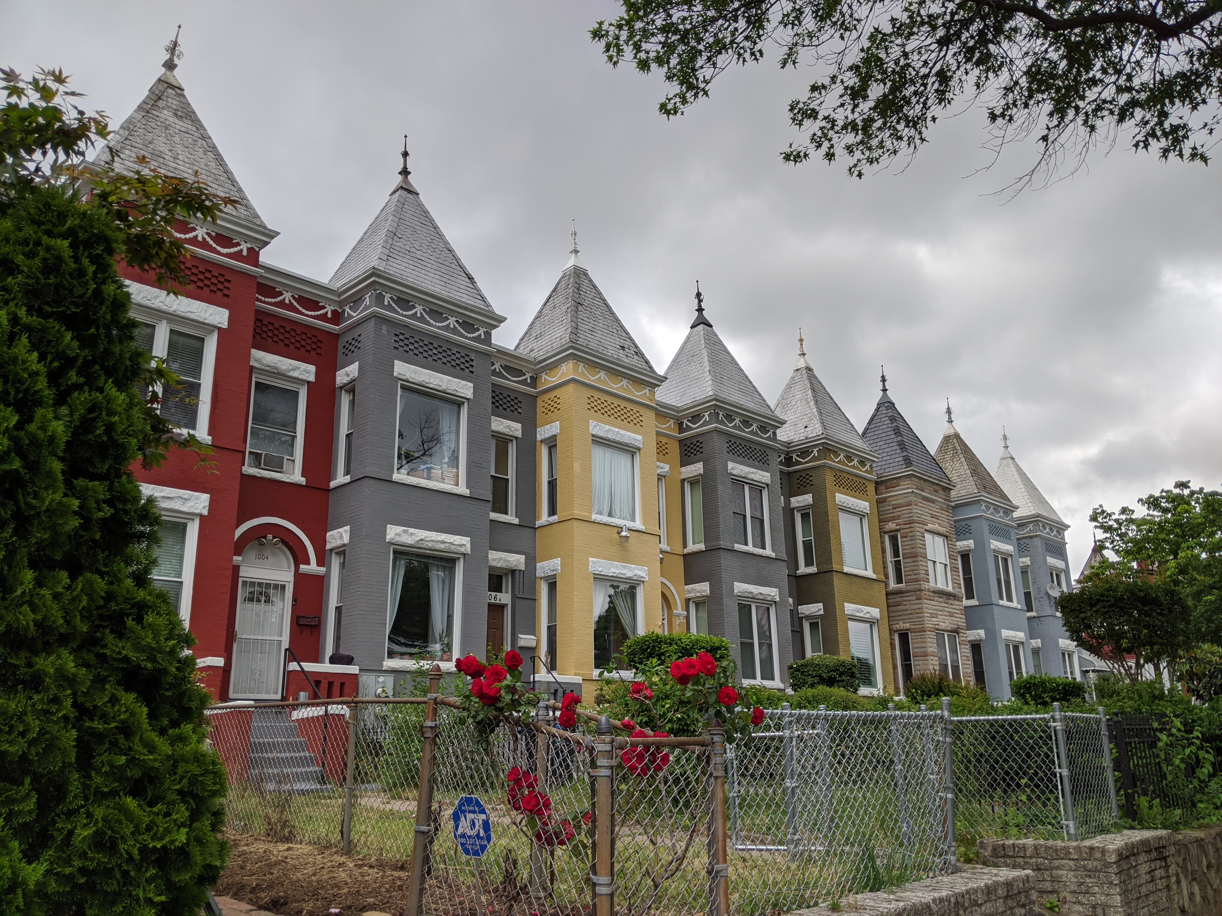 Rowhouses at K Street and 10th Street NE, Near Northeast, Washington, DC